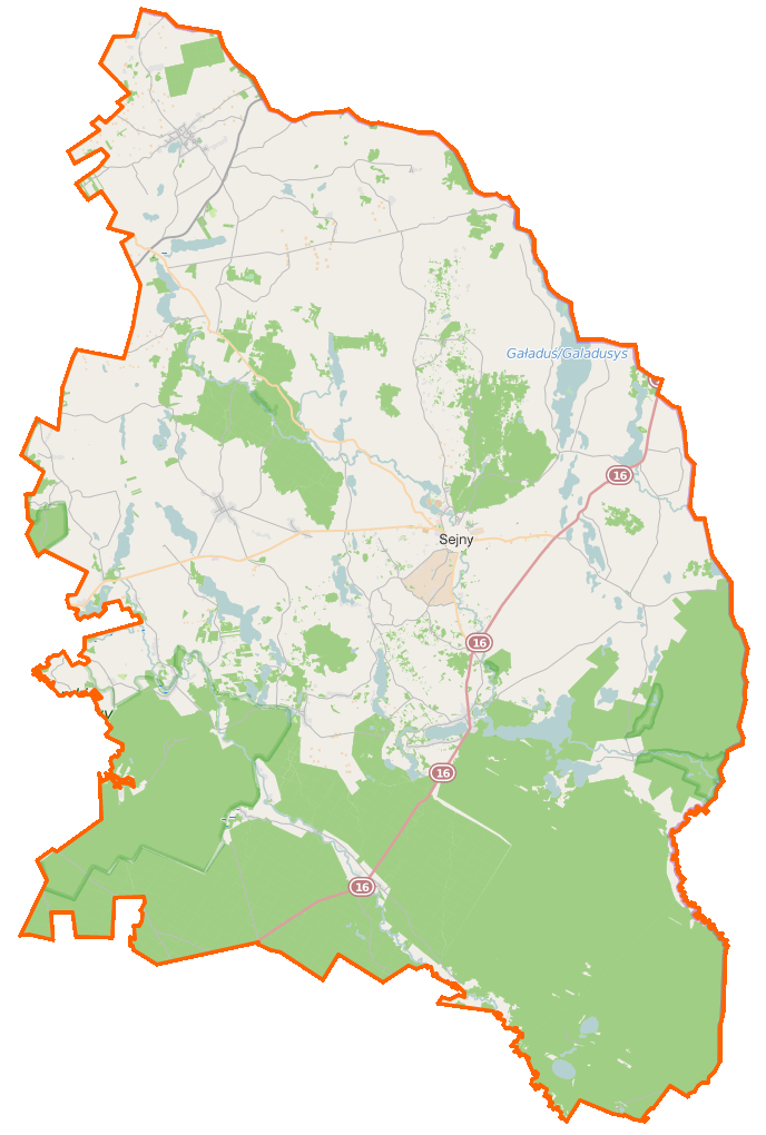 Map of Powiat sejneński, Poland This map of Powiat sejneński was created from OpenStreetMap project data, collected by the community. This map may be incomplete, and may contain errors. Don't rely solely on it for navigation.